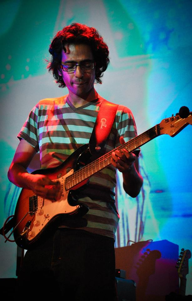 Bappa Mazumder performing live!